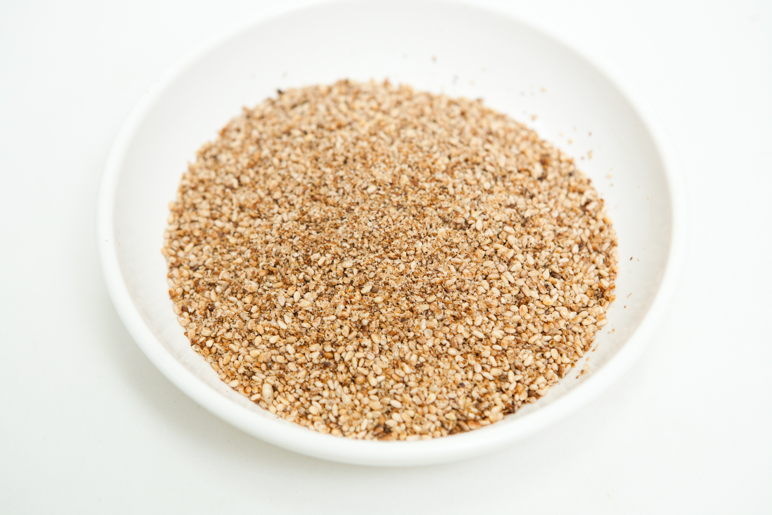 Kkaesogeum (ground sesame seeds)